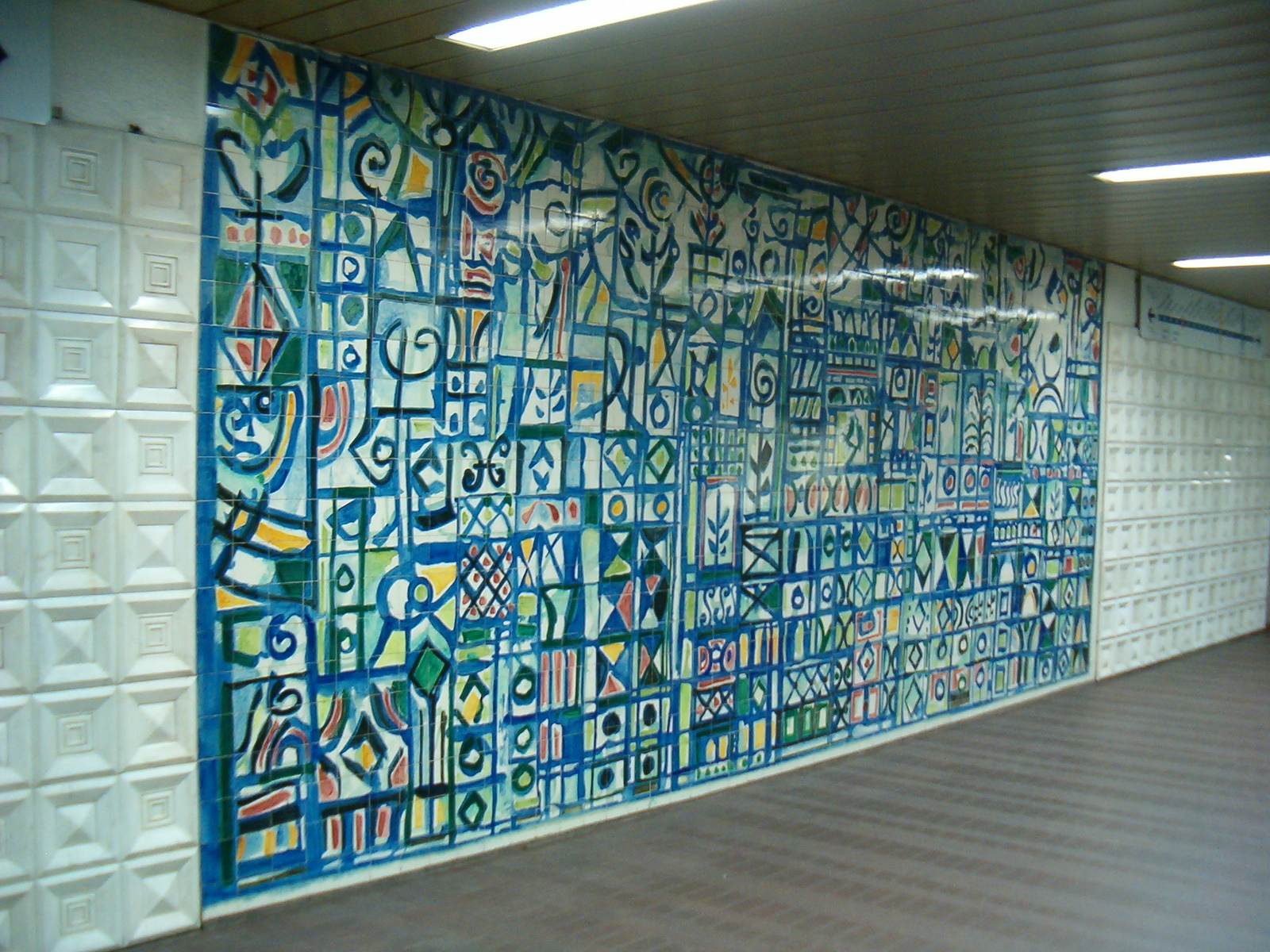 Metro station Colégio Militar/Luz (Lisboa)